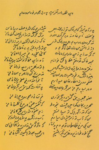 Handwritten of Parvin E'tesami's poem to her father